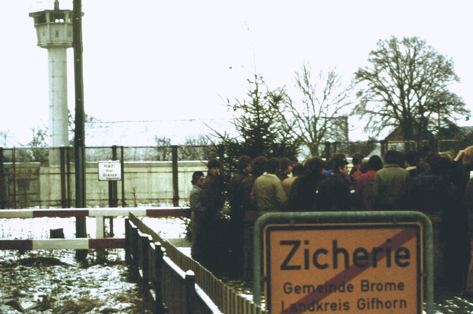 Village Zicherie-Böckwitz, near Hannover. East-West border Germany 1979